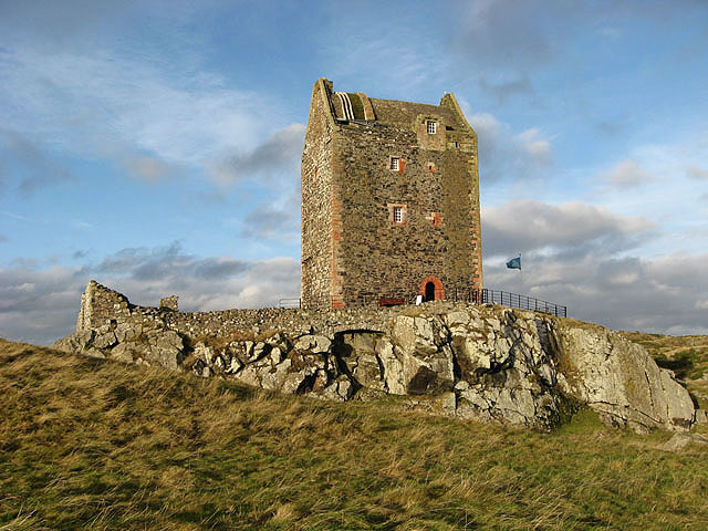 Smailholm Tower This 15th century rectangular tower, set in a barmkin wall, sits on a rocky outcrop on Lady Hill. It houses an exhibition of tapestries and costume dolls relating to Sir Walter Scott's Minstrelsy of the Scottish Borders. The tower is in the care of Historic Scotland and is open all year. Viewed in early December.